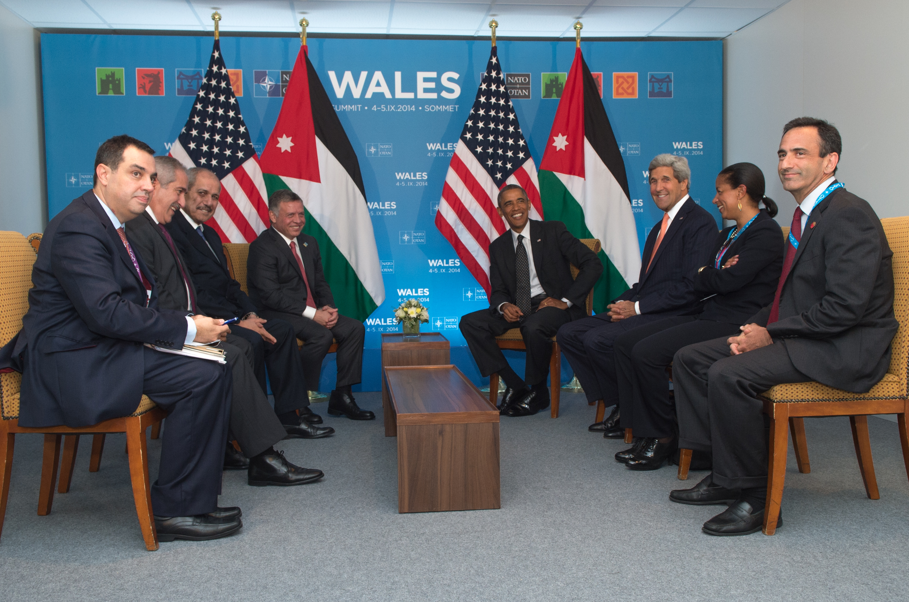 President Obama, Secretary of State John Kerry, and National Security Adviser Susan Rice meet with Jordan's King Abdullah II and their counterparts amid the NATO Summit in Newport, Wales, United Kingdom on September 4, 2014. [State Department photo/ Public Domain]